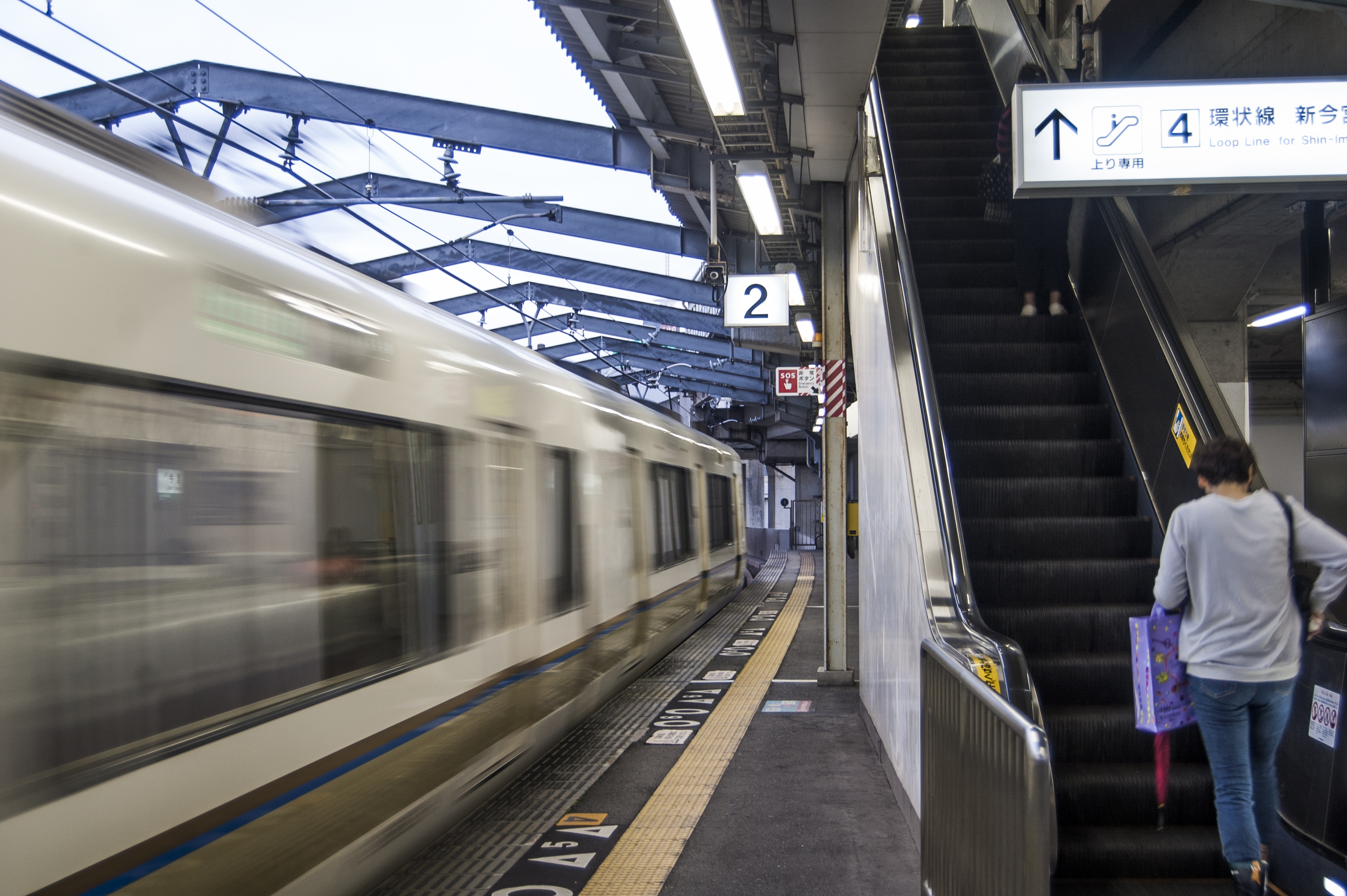 Japan 2015